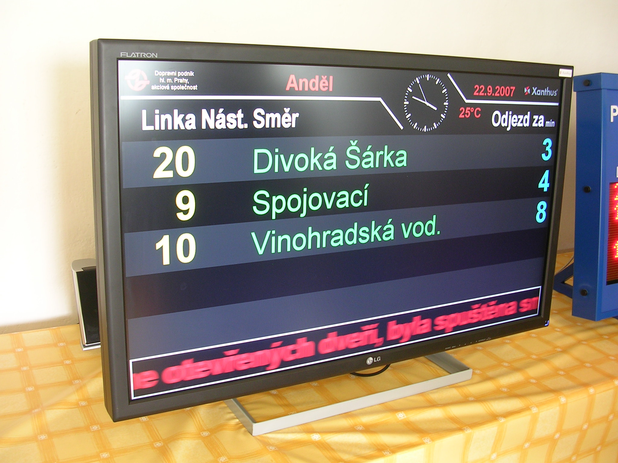 Prototype of a departure board. Visiting day in the tram depot Prague-Hloubětín, Czech Republic.